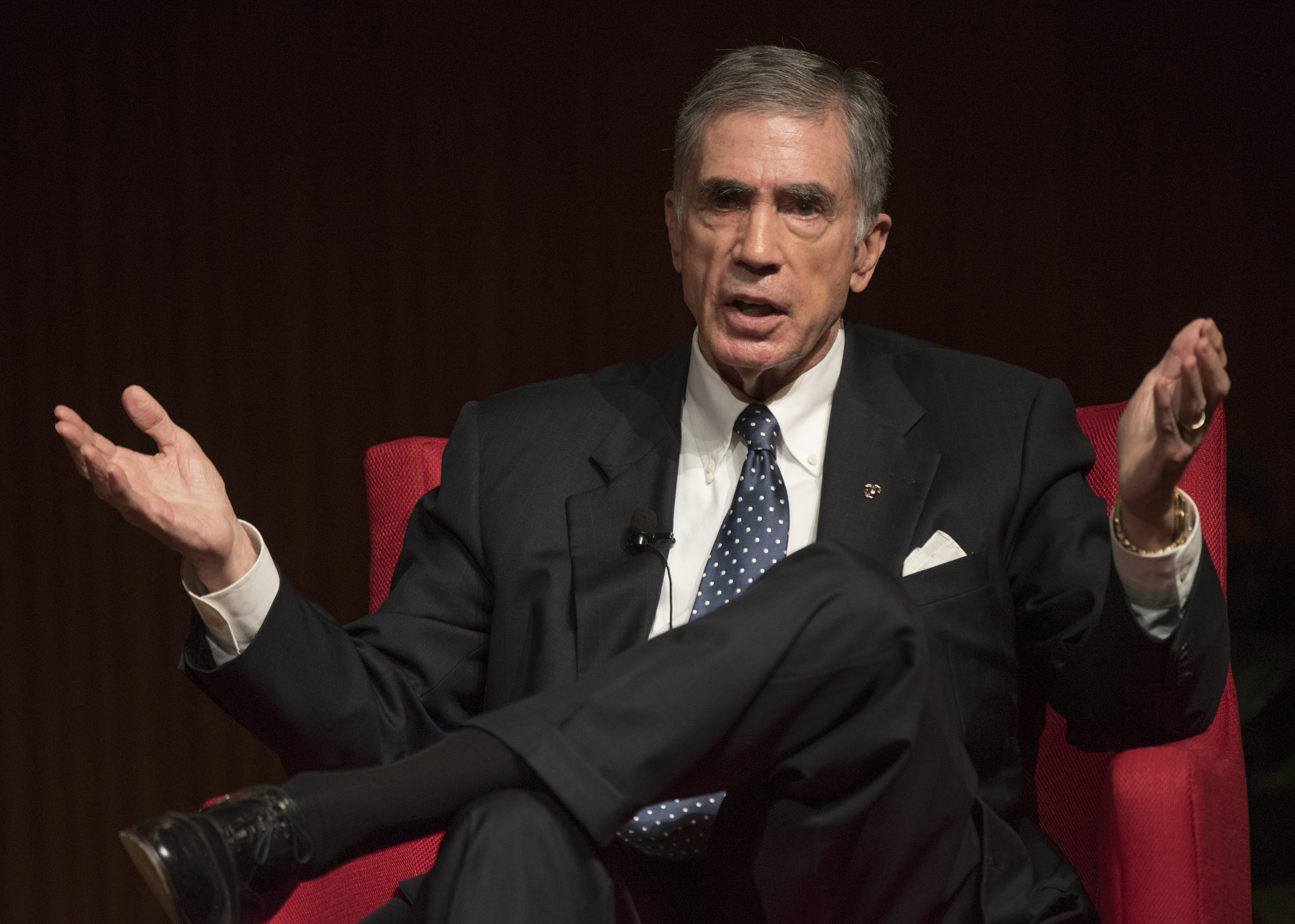 Charles Robb, former governor of Virginia, former U.S. Senator, and Vietnam veteran, speaks at the LBJ Presidential Library's Vietnam War Summit on Thursday, April 28, 2016. He participated in a panel discussion about lessons learned from the Vietnam War. Robb is the son-in-law of President Lyndon Johnson. Other panelists were Bob Kerrey, former governor of Nebraska, former U.S. Senator, and Medal of Honor recipient for his service as a Navy SEAL in Vietnam; and William McRaven, chancellor of the University of Texas System and former Commander of United States Special Operations Command. University of Texas at Austin history professor Mark Lawrence, who has written several books about the Vietnam War, moderated the discussion. LBJ Library photo by Jay Godwin 04/28/2016